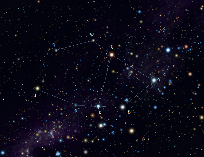 Image of Vela